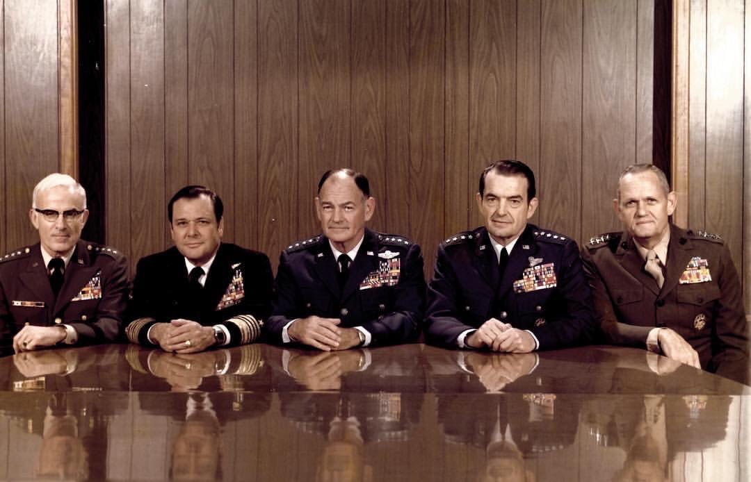 The Joint Chiefs of Staff member at The Pentagon in 1977, From left to right are: U.S. Army Chief of Staff Gen. Bernard W. Rogers, U.S. Navy Chief of Naval Operations Adm. James M. Holloway III, Chairman of the Joint Chiefs of Staff Gen. George S. Brown, U.S. Air Force Chief of Staff Gen. David C. Jones, U.S. Marine Corps Commandant Gen. Louis H. Wilson Jr.